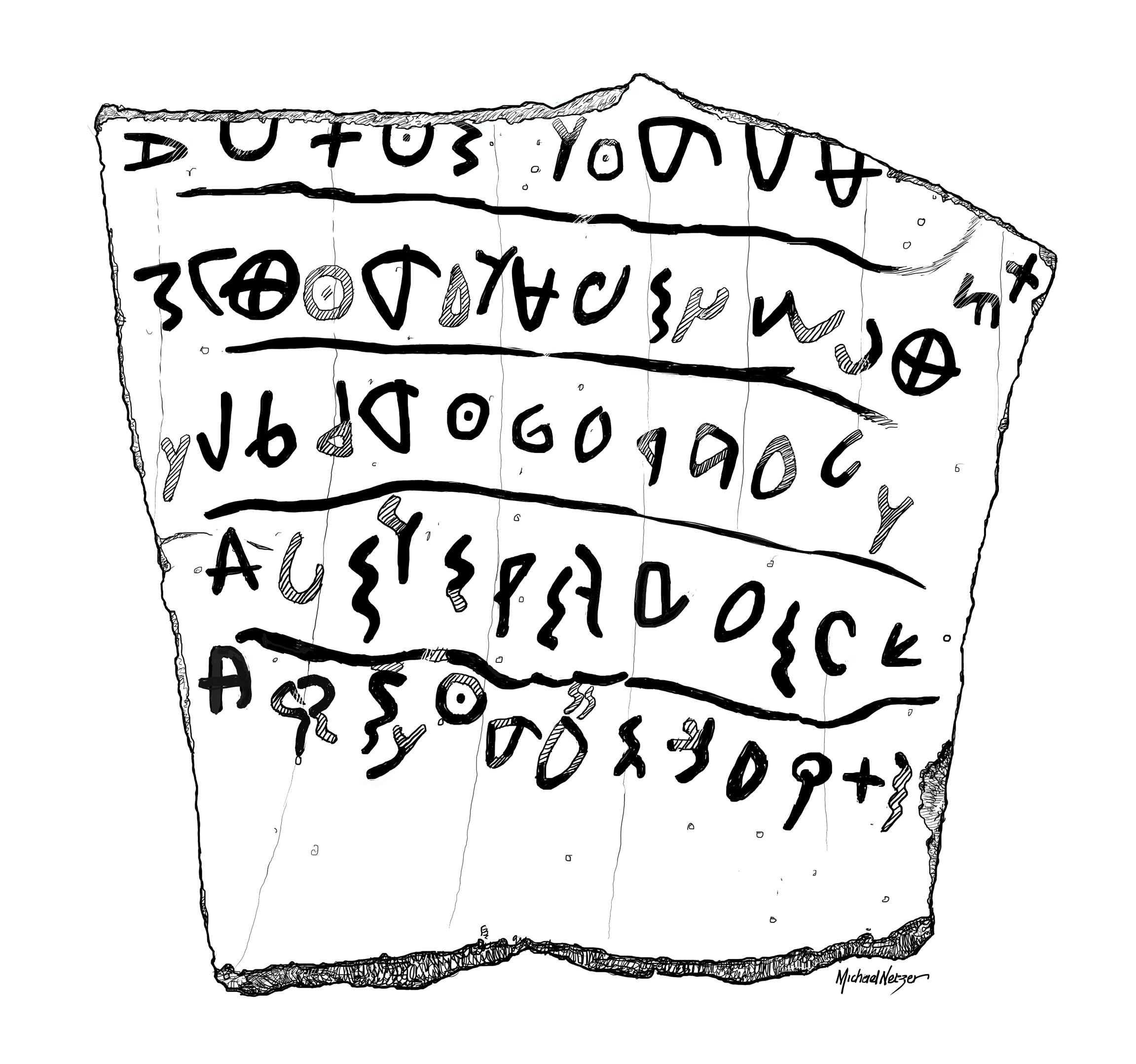 A rendition of The Khirbet Qeiyafa Ostracon by Michael Netzer for illustration purposes, based on photographs of the potsherd by the Khirbet Qeiyafa project at the Hebrew University of Jerusalem, imaging illuminations of text and interpretations of faded script areas.